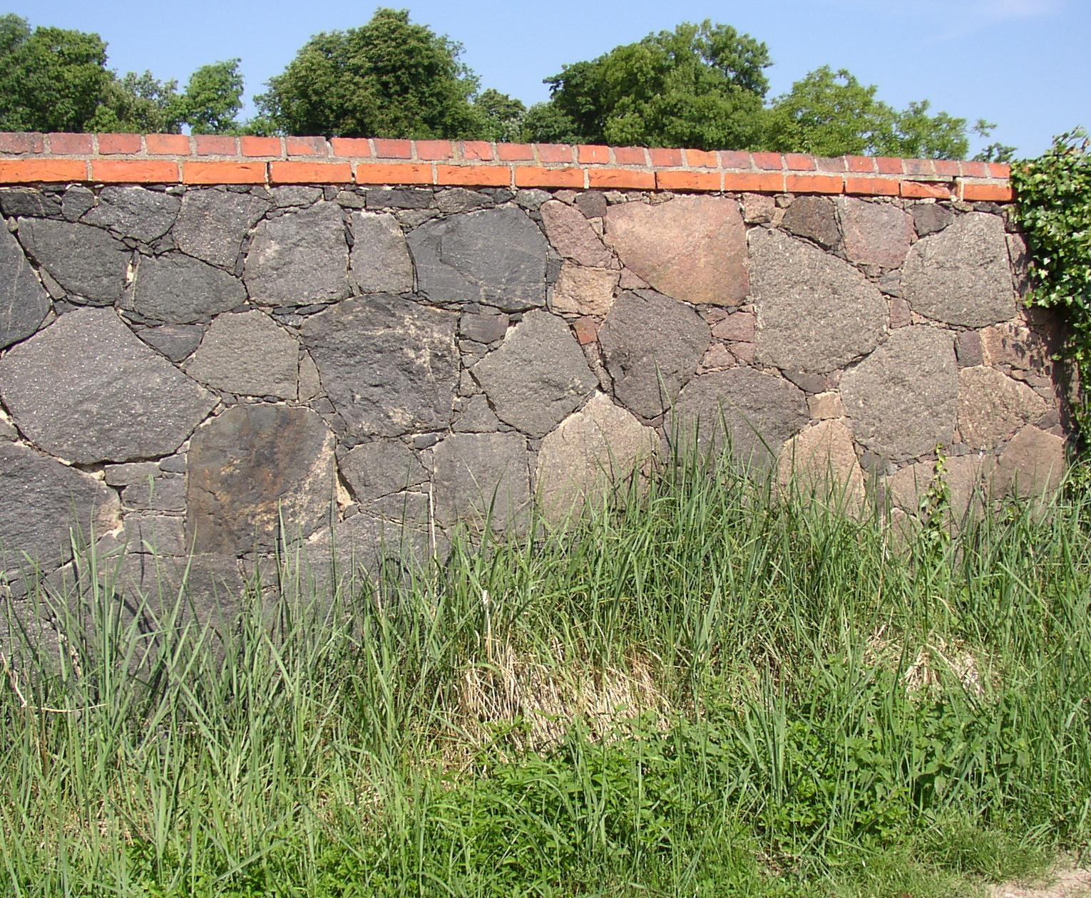 Fieldstone wall in Wriezen-Haselberg in Brandenburg, Germany